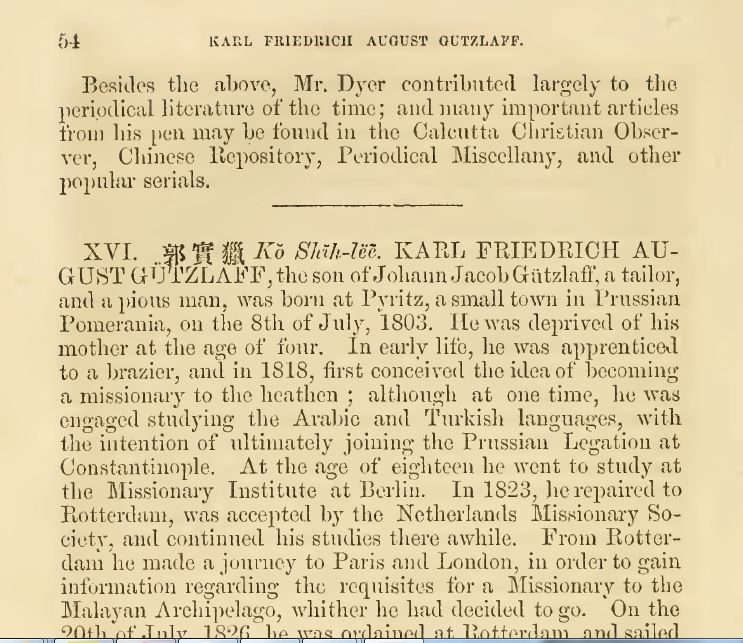 Gutzlaff biography